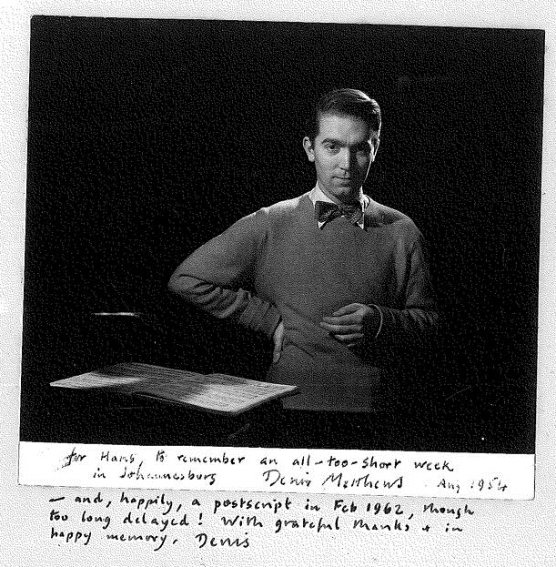 dedicated photo to Hans Adler, tour organiser;Other information: with Hans Adler memorial music museum, Witwatersrand University, South Africa